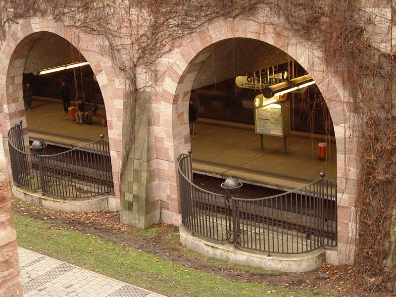 Nuremberg's underground station Opernhaus, line U2